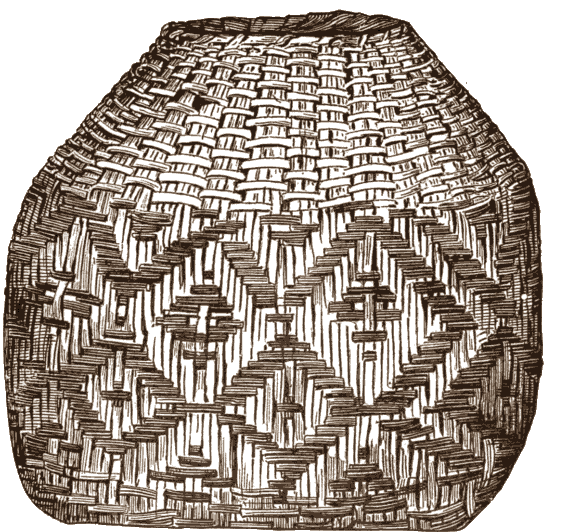 Twilled woven basket made from cane by Eastern Band Cherokees in North Carolina. The pattern is produced by overlapping two or more warp sticks with each stitch. Collected in 1880 by Dr. Edward Palmer.